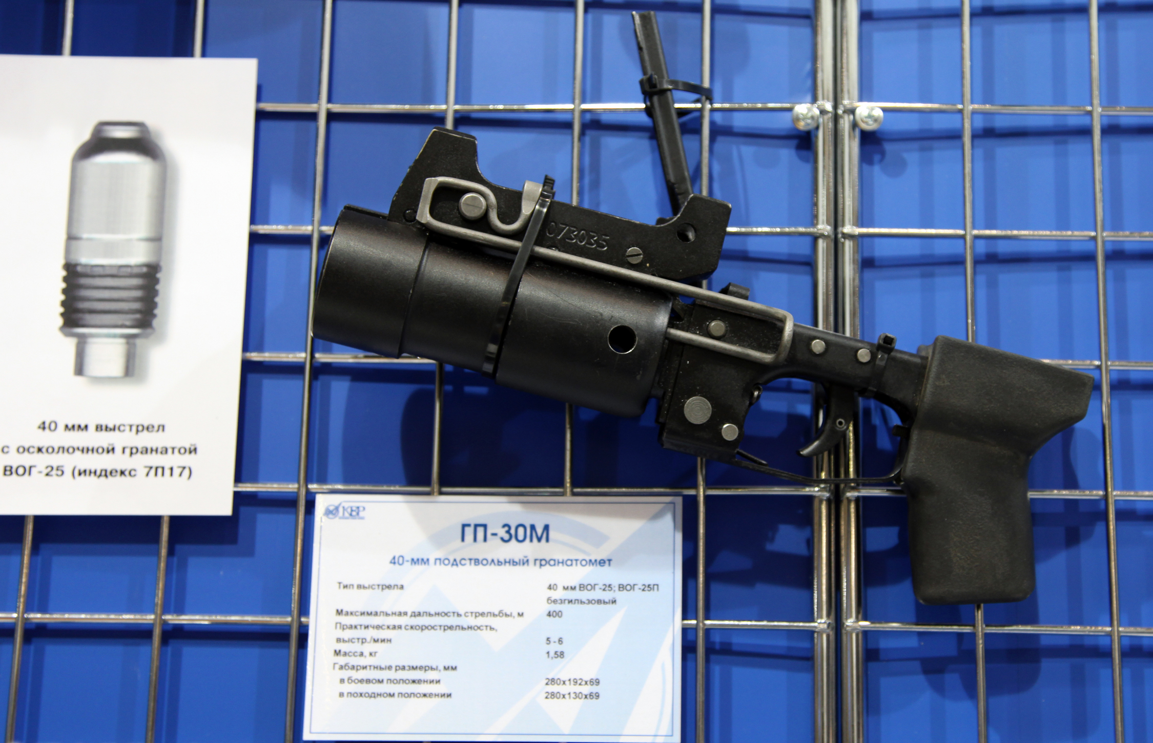 GP-30M grenade launcher at Interpolitex-2012